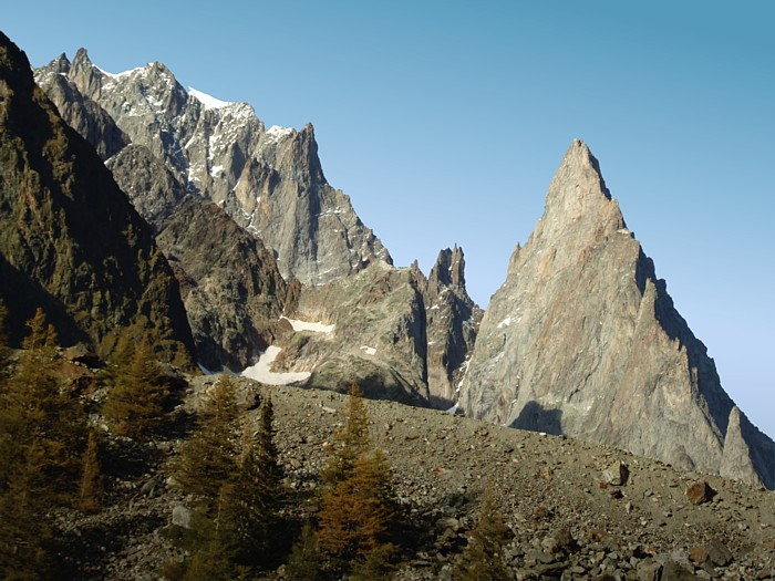 Aiguilles de Peuterey seen from Val Veny Picture taken and edited by user Idefix october 9, 2006